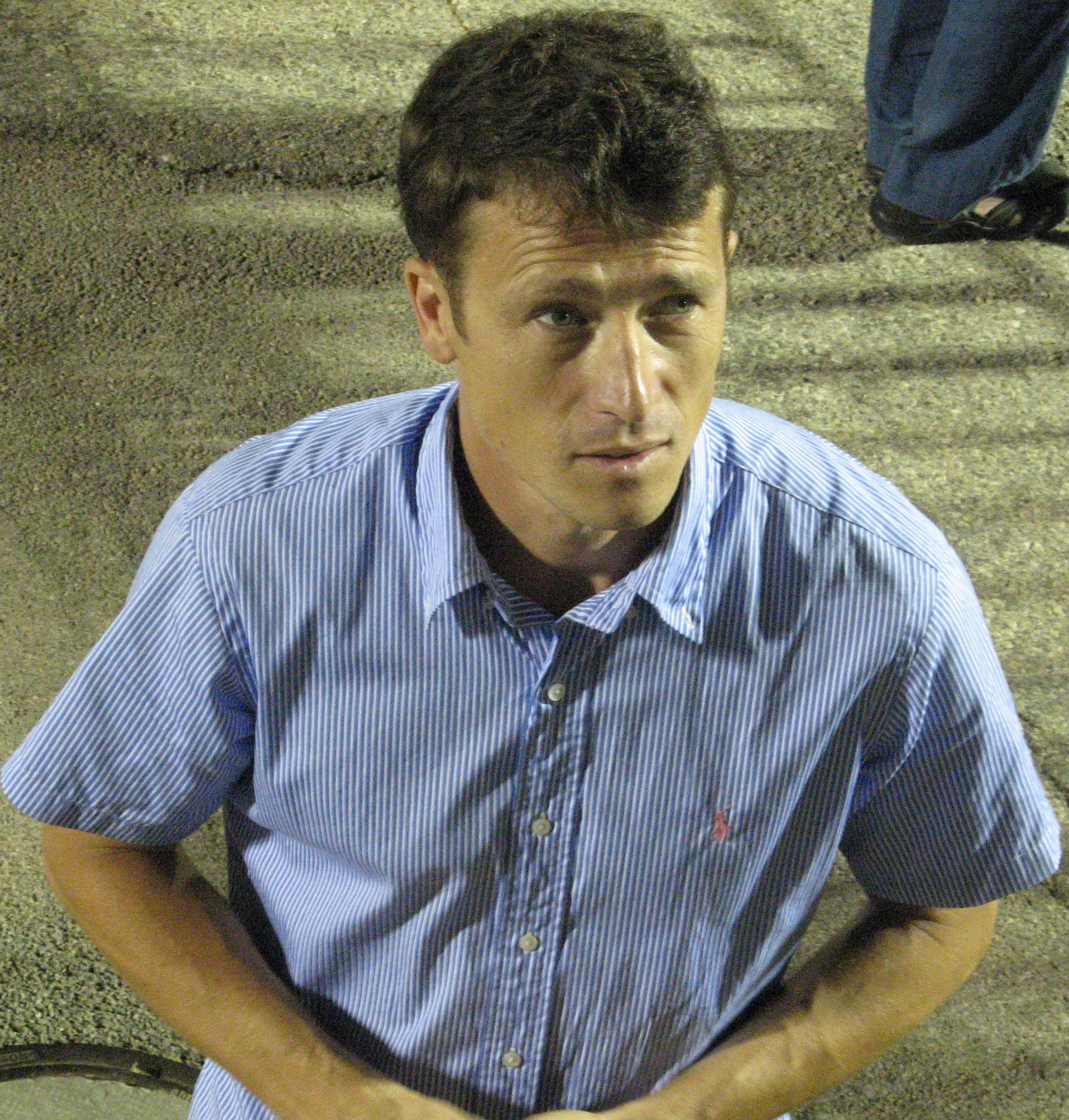 The Israeli retired Pole vaulter Aleksandr Averbukh during the 2nd day of the Israel track and field championship 2011